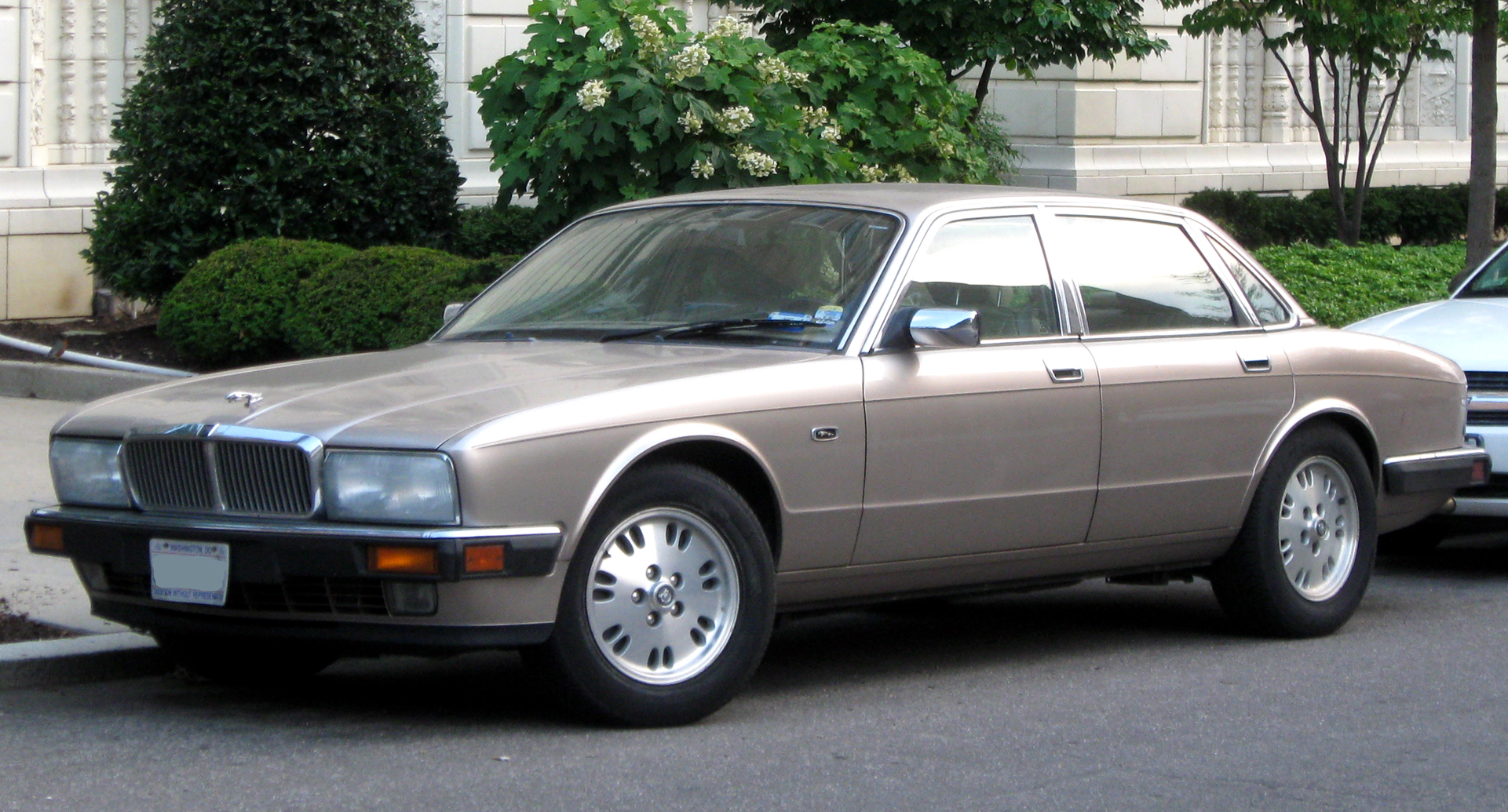 Jaguar XJ6 photographed in Washington, D.C., USA.